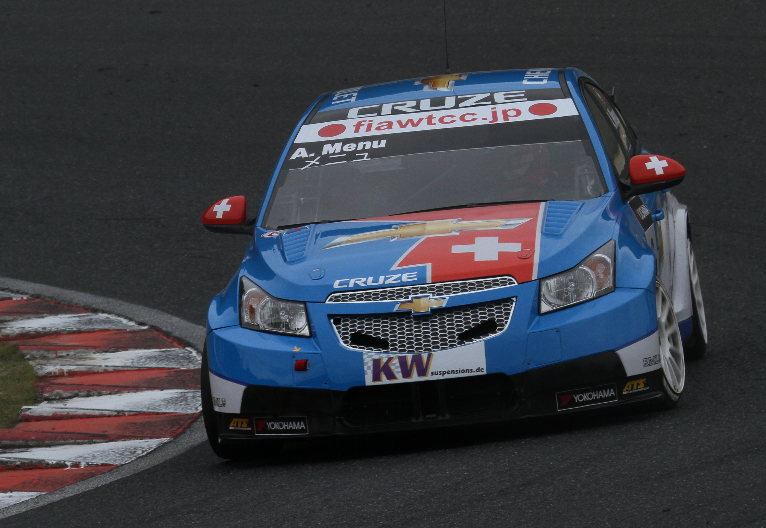 World Touring Car Championship 2010 Race of Japan: Alain Menu (Chevrolet) during the 2nd free practice session on Saturday.